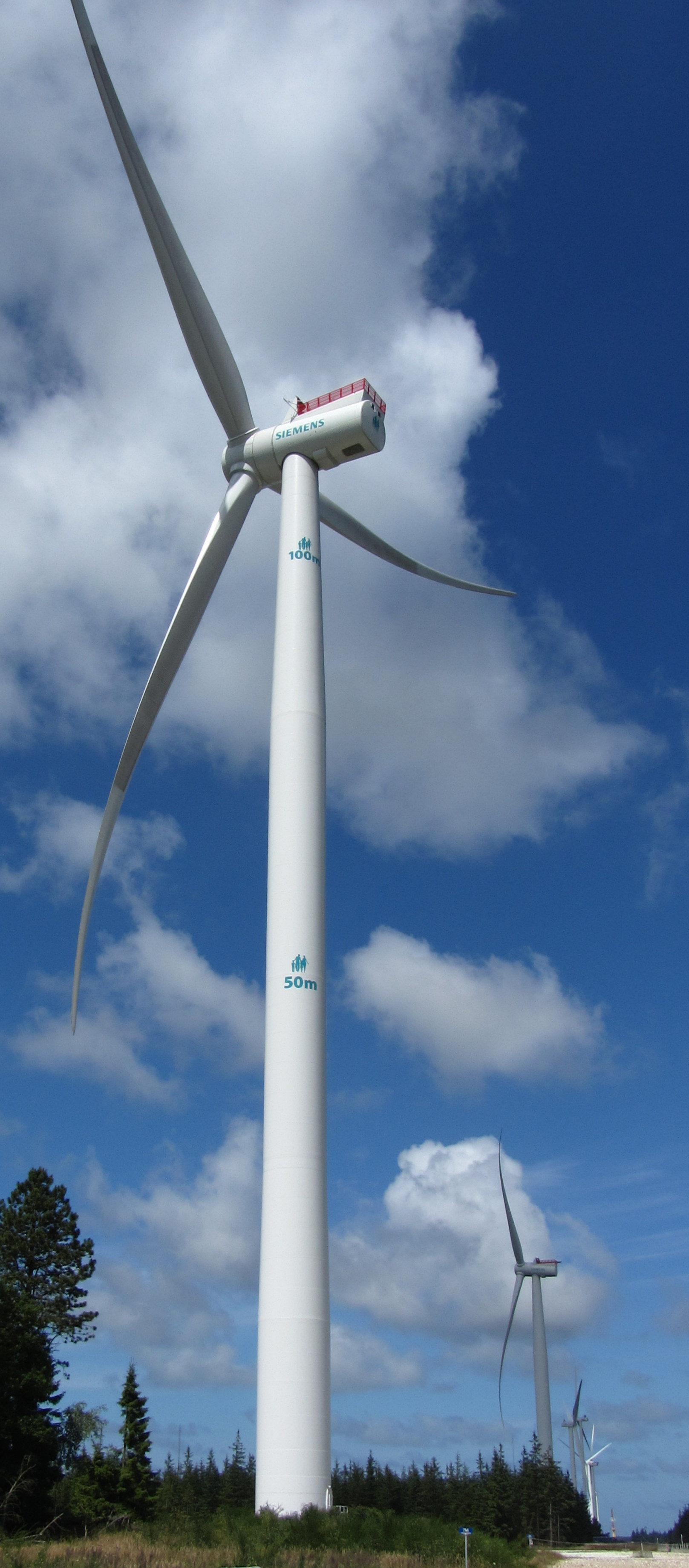 wind turbine at